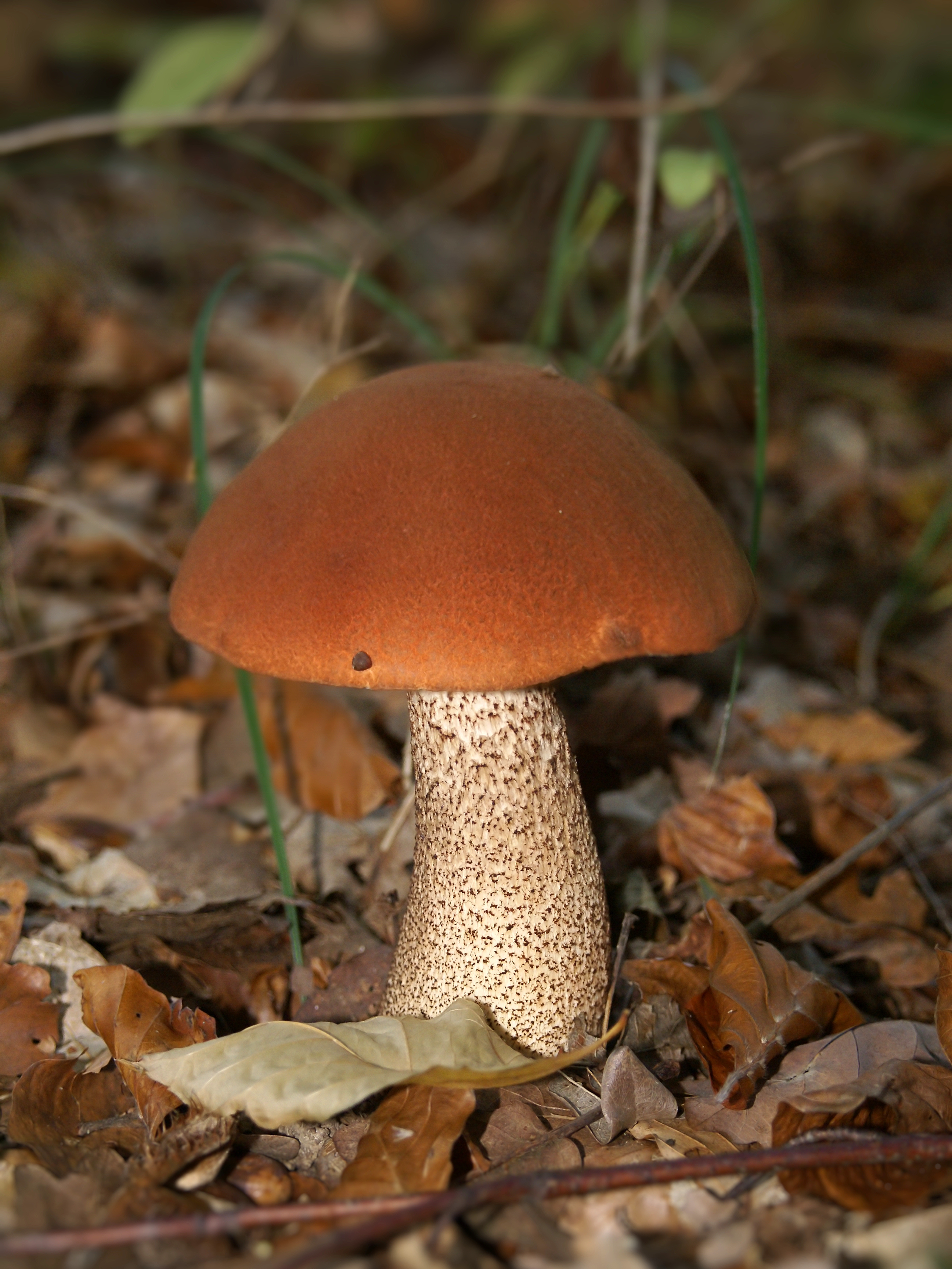 Red-capped scaber stalk. Luxembourg